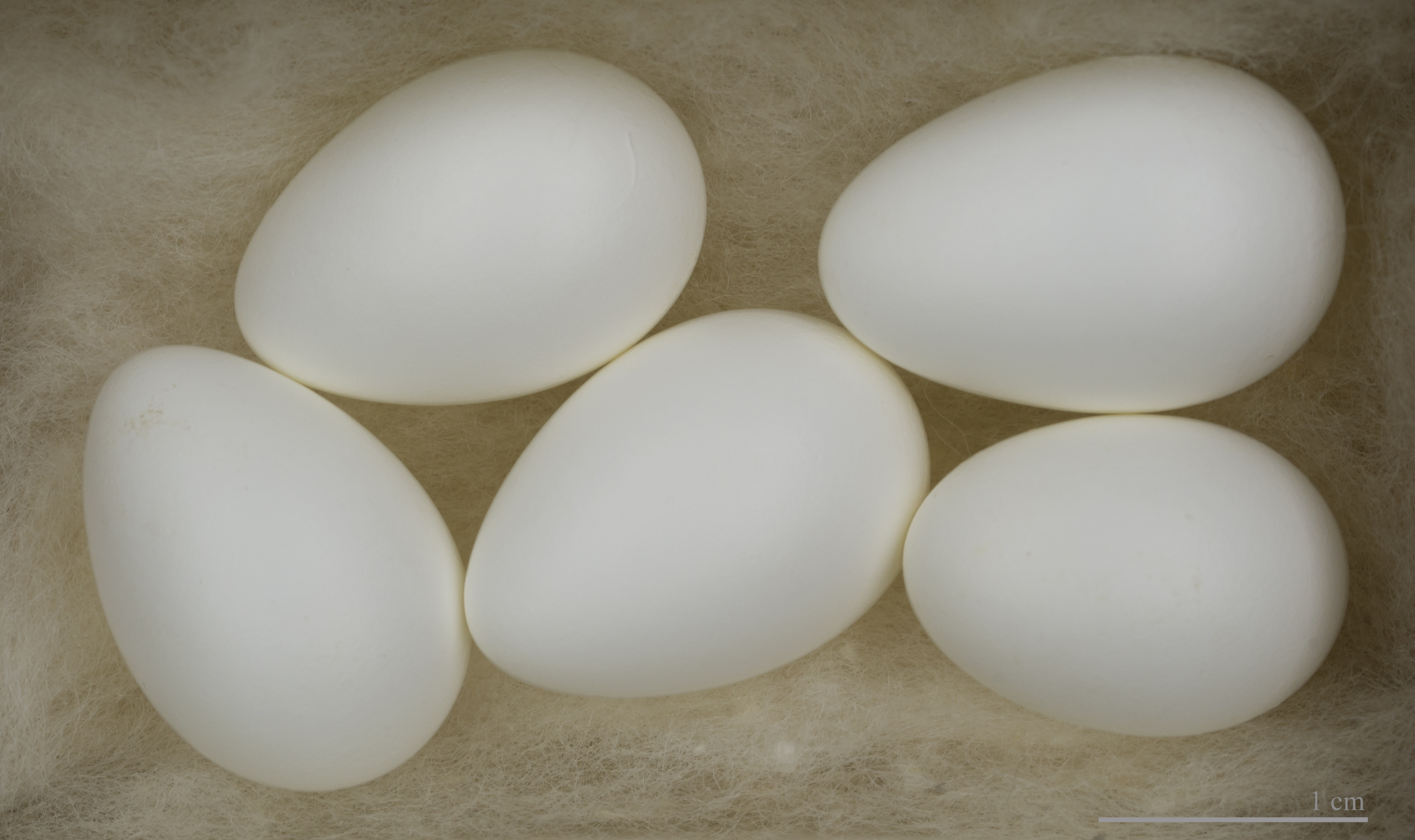 Eggs of Common House Martin. Collection of Jacques Perrin de Brichambaut.